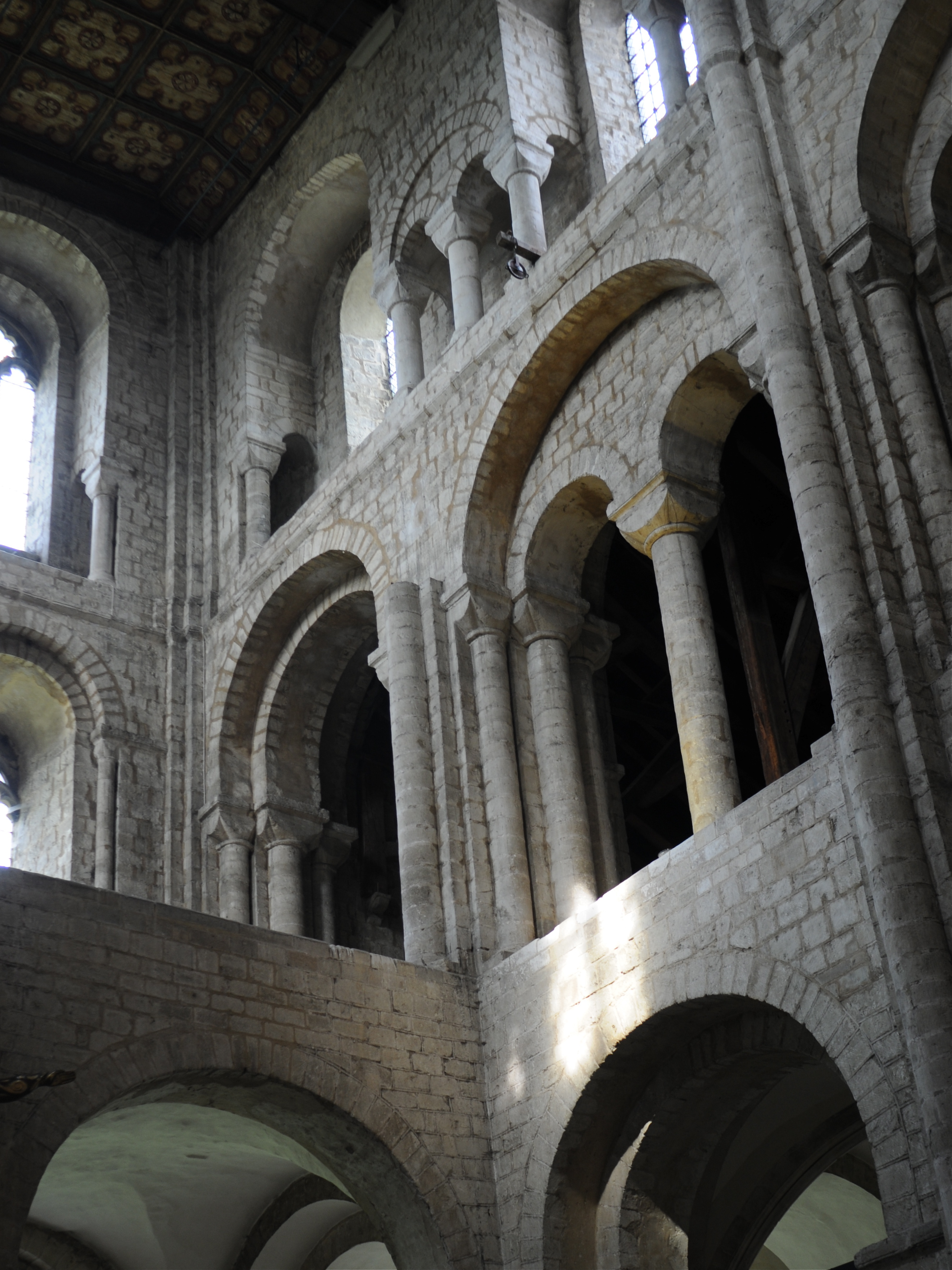 North transept at Winchester Cathedral.